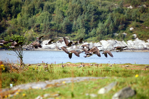 Birds on the island of Herdla in Askøy, Norway